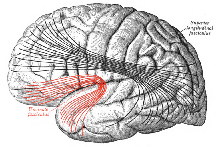 Uncinate fasciculus. The uncinate fasciculus is a hook-shaped bundle that links the forward portions of the temporal lobe with the inferior frontal gyrus and the lower surfaces of the frontal lobe.